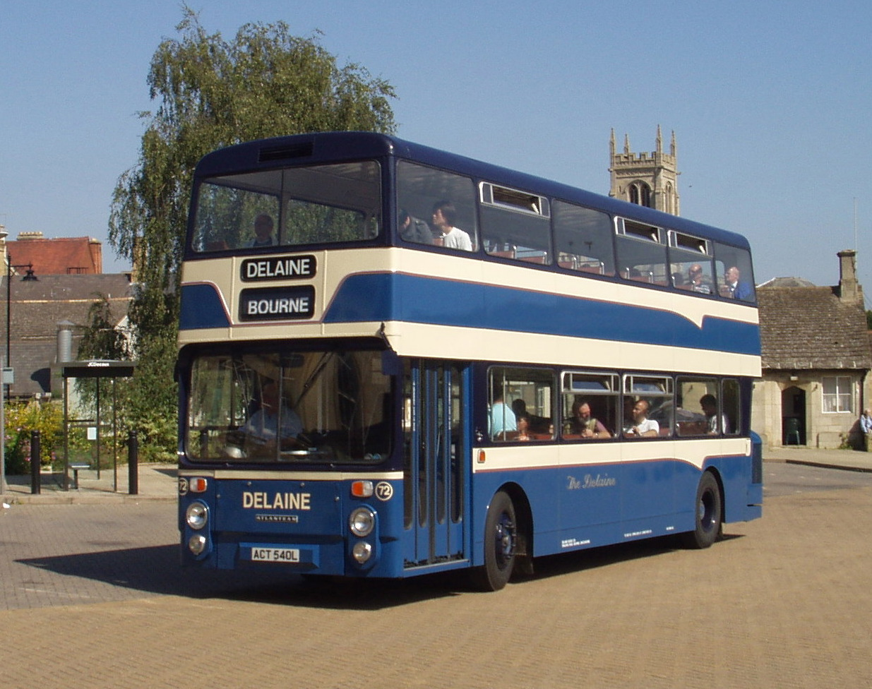 Delaine of Bourne 1973 Leyland Atlantean (33' long) with Northern Counties bodywork, number 72 (ACT 540L), in the company's Heritage Fleet and pictured at Stamford bus station during the Delaine Leyland Day on 25 August 2007